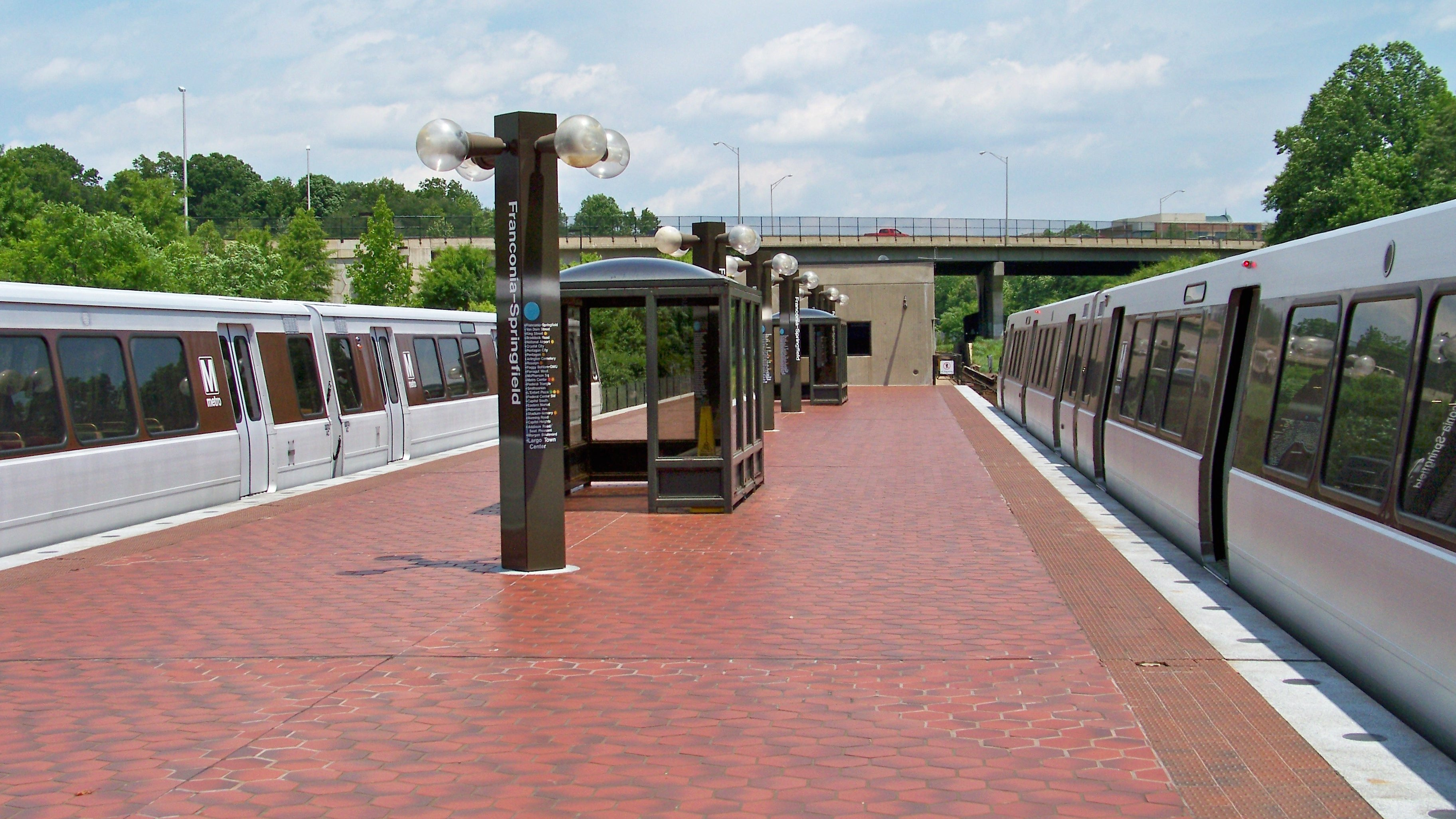 Inbound end of Franconia-Springfield station platform.